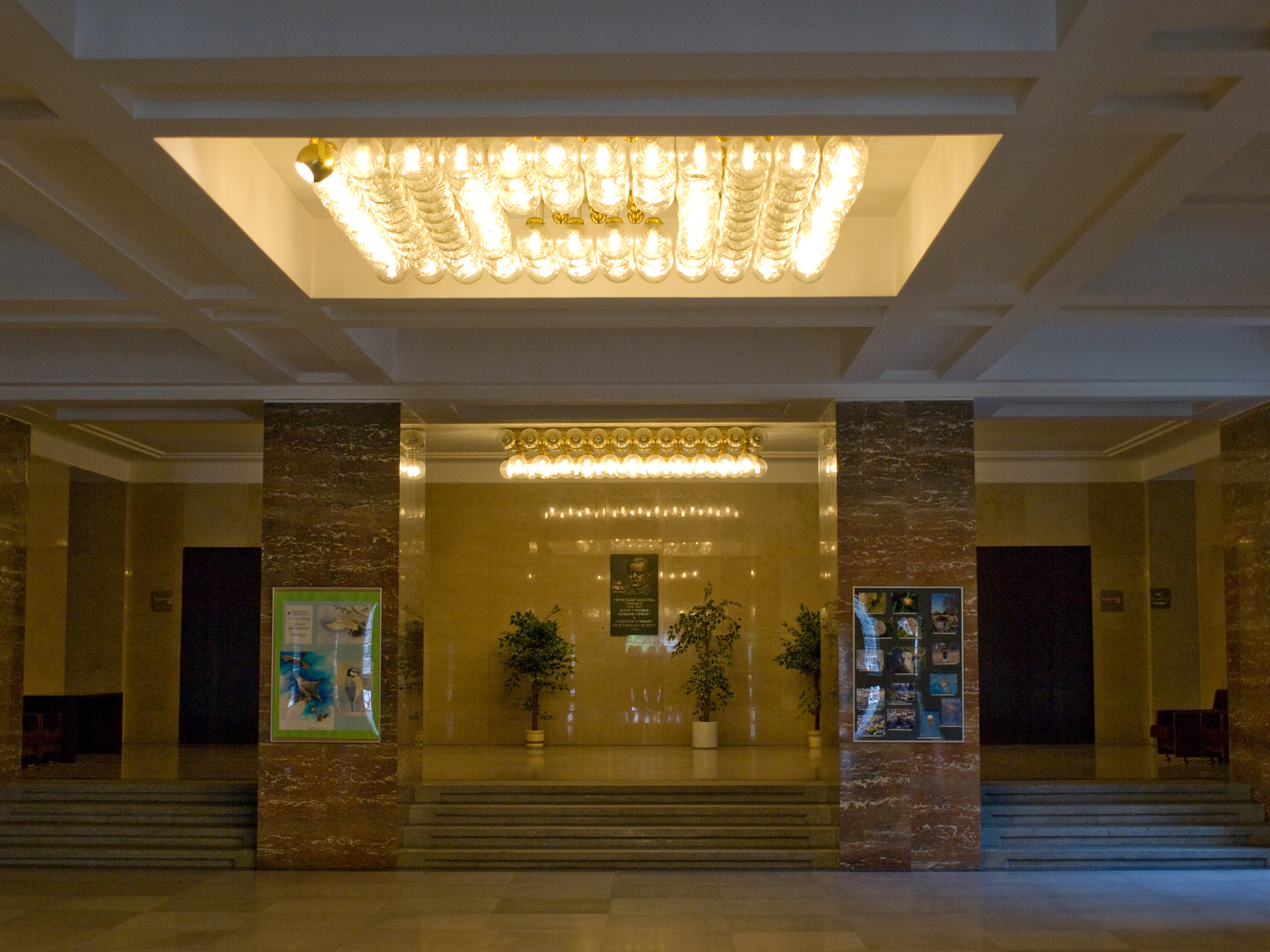 Interior, New townhall, Prokešovo square, Moravská Ostrava